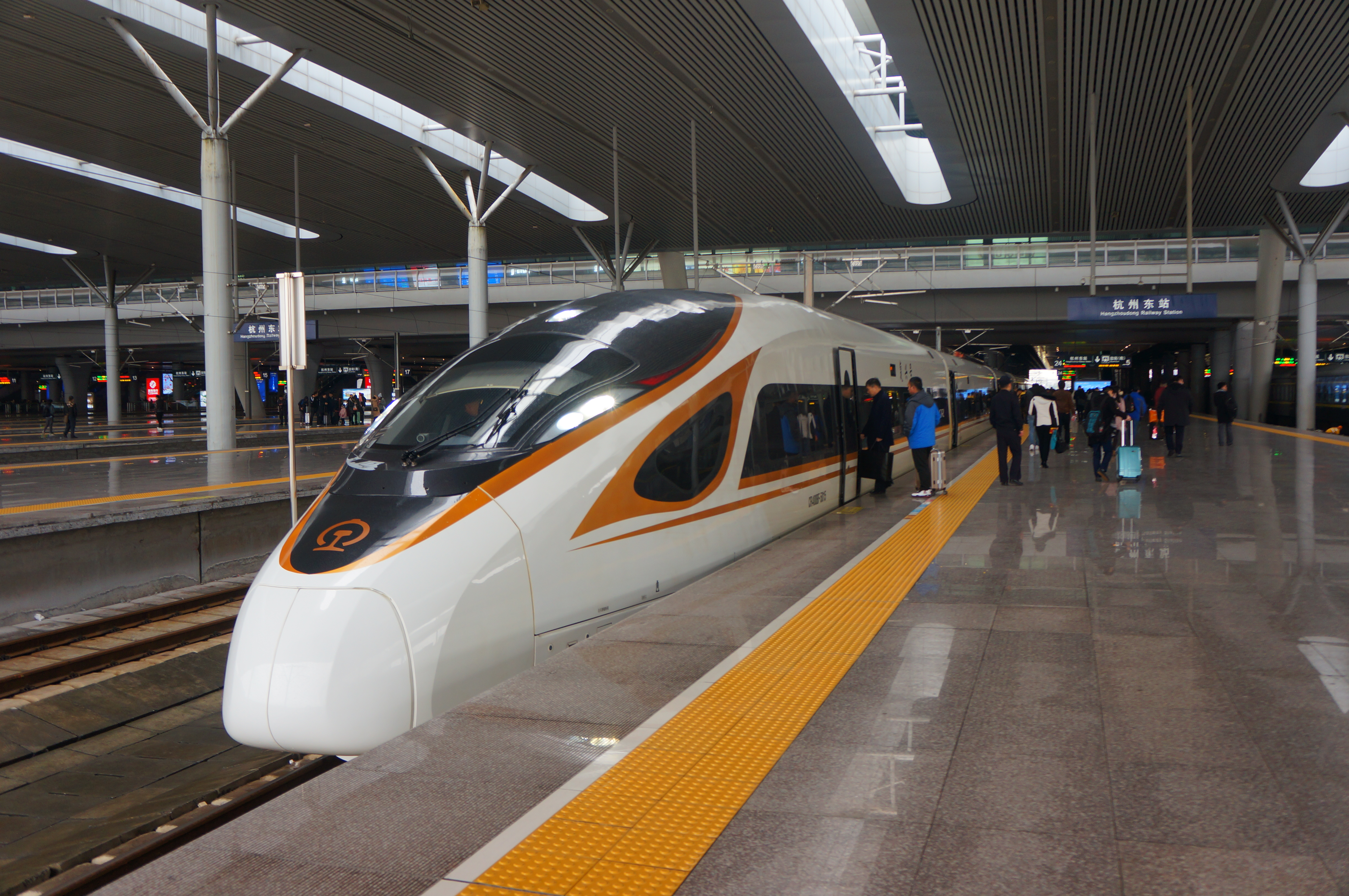 201801 CR400BF-5015 for G1373 (Shanghai Hongqiao to Kunmingnan) at Hangzhoudong Station. Thankfully it does not have any delay.